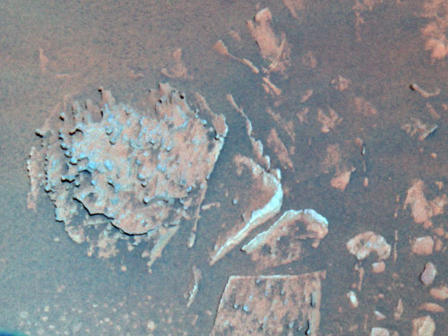 "Pot of Gold" rock on Mars taken with Mars Exploration Rover Spirit